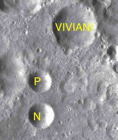 Part of the chart LAC-65 used for the presentation